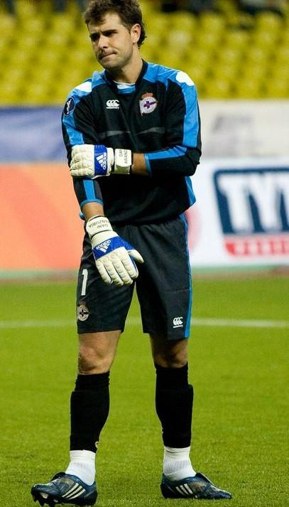 Daniel Aranzubia